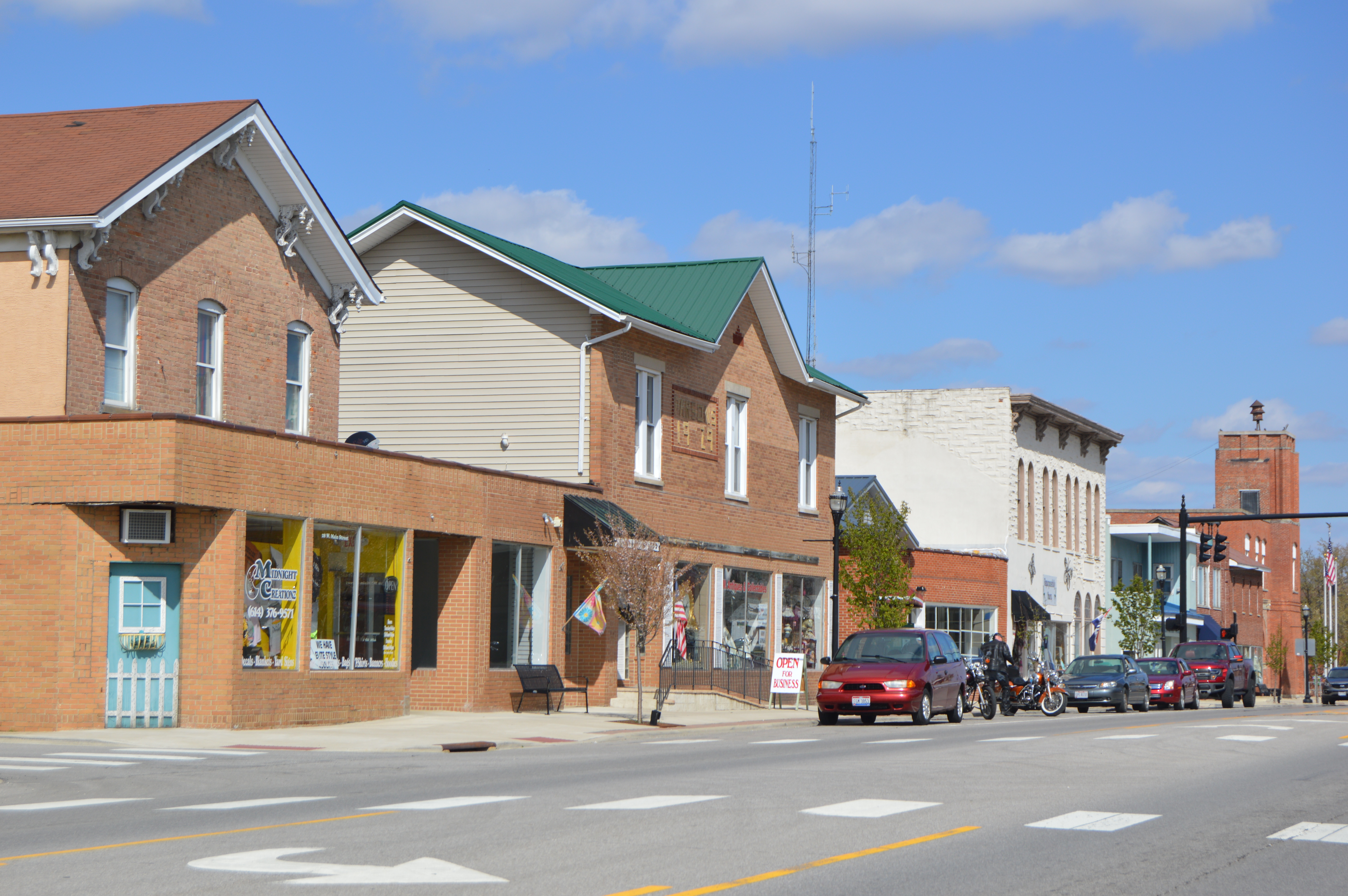 Buildings on the northern side of the first block of W. Main Street (U.S. Route 40) in West Jefferson, Ohio, United States.